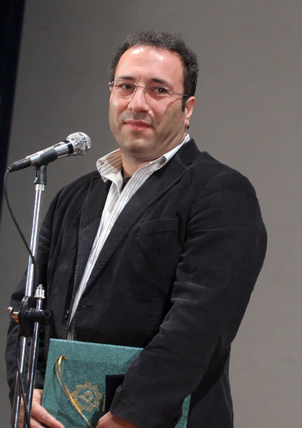 Reza Mirkarimi, Iranian film director and writer.